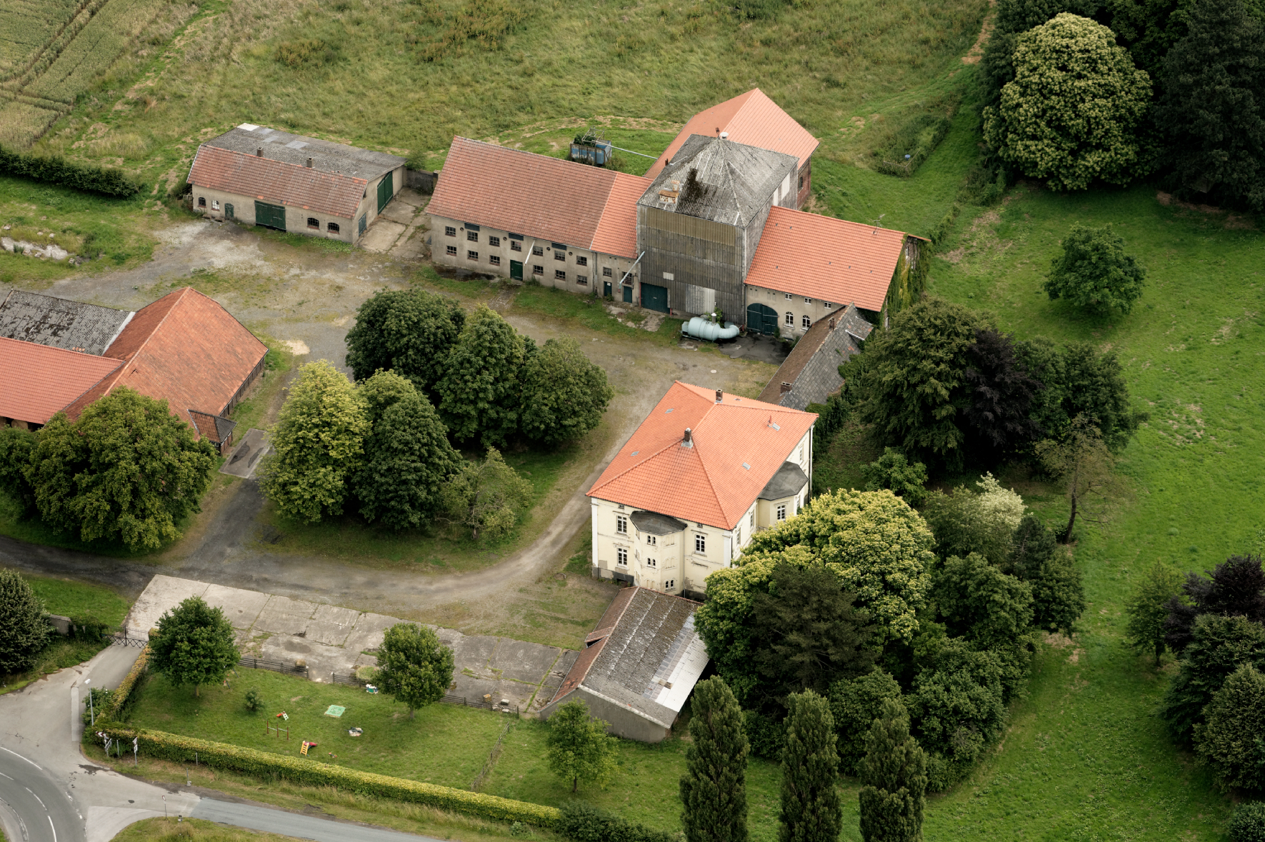 Gut/Kloster Scheda in Wickede (Ruhr)-Wiehagen. Fotoflug Sauerland Nord. The making of this document was supported by the Community-Budget of Wikimedia Germany.